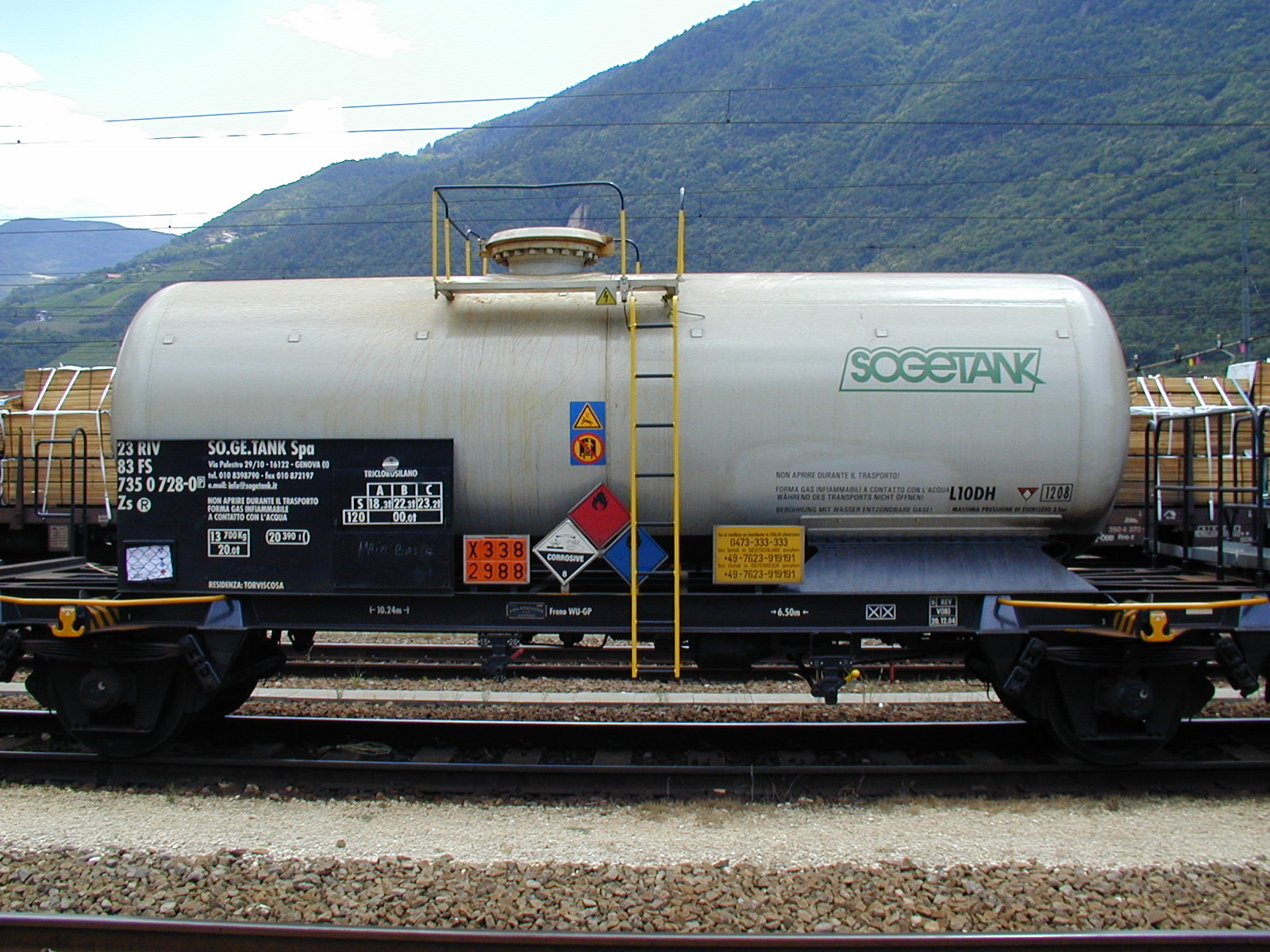 RID-Waggon with Chlorosilanes